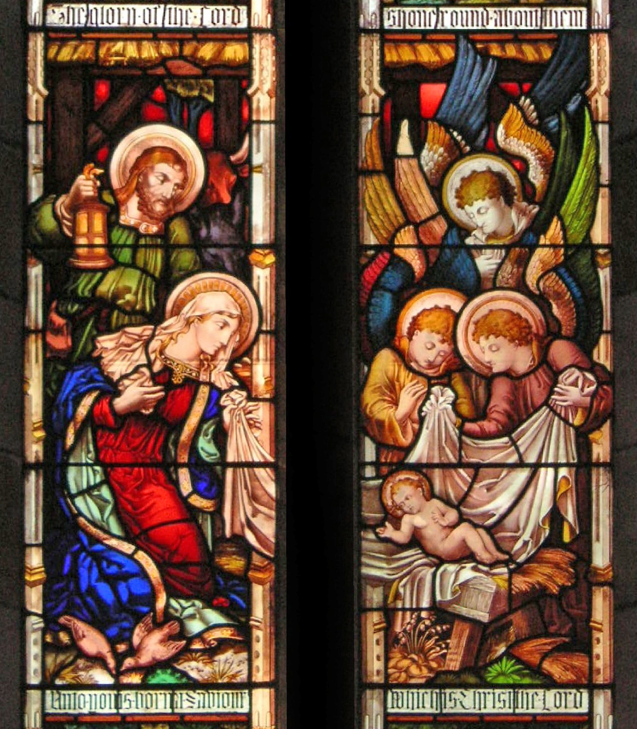 St John's Angliican Church, Darlinghurst Sydney, The Nativity by Clayton and Bell, England, based on German engraving. Date:1875-80? This picture is a composite of three images, the first join being above the manger scene and the second, below the heads of the Magi (the lowest section is of poor quality). The outer borders have been darkened.